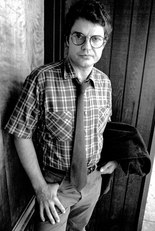 Bassist Charlie Haden at radio station KJAZ in Alameda CA, 1981. Photo by Brian McMillen /